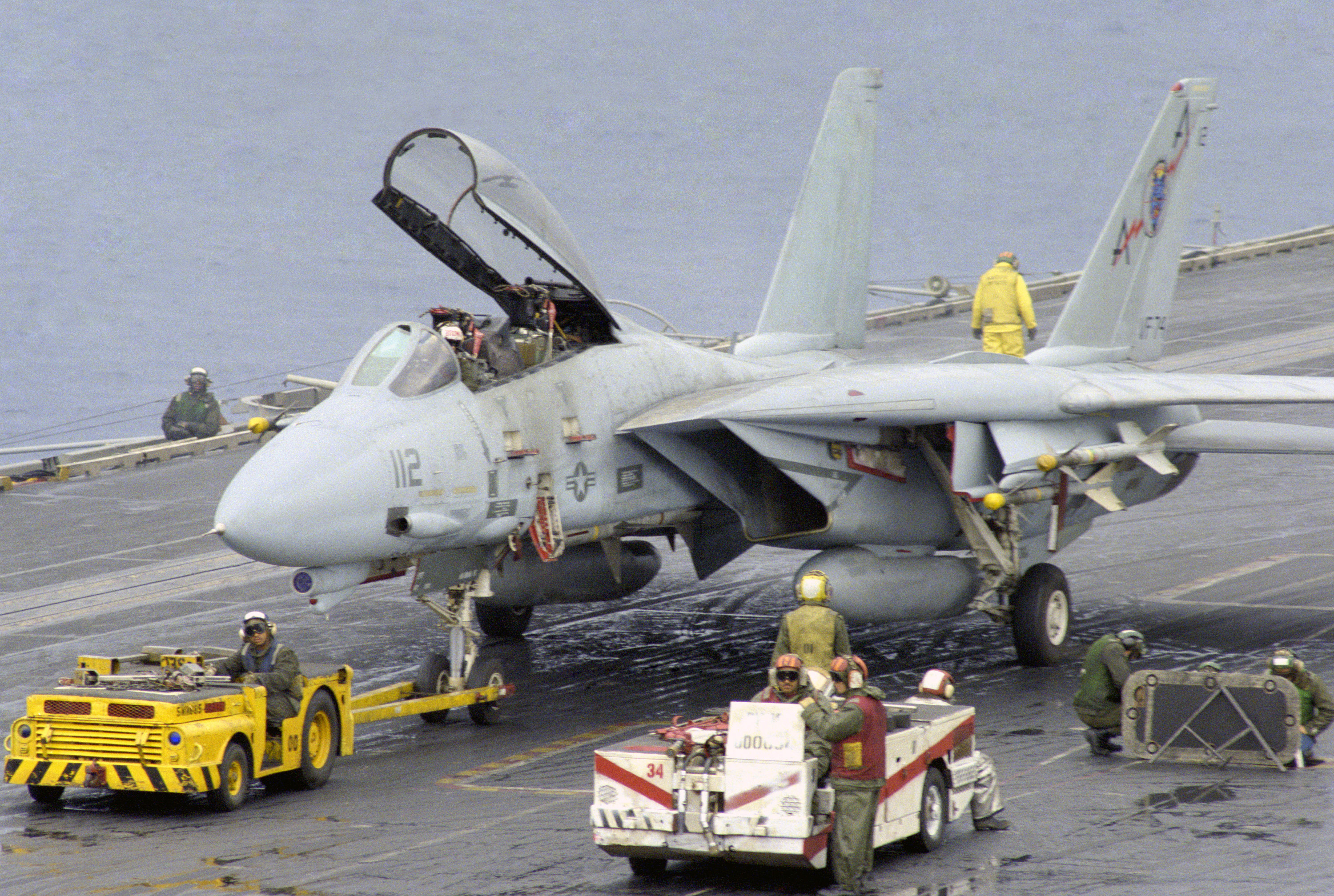 A U.S. Navy Grumman F-14A-105-GR Tomcat (BuNo 160918) from fighter squadron VF-74 Be-Devilers being towed aboard the aircraft carrier USS Saratoga (CV-60) on 22 March 1986. To the right is a modified MD-3A fire fighting vehicle. VF-74 was assigned to Carrier Air Wing 17 (CVW-17) aboard the Saratoga for a deployment to the Mediterranean Sea from 16 August 1985 to 16 April 1986. On 15 April 1986 Saratoga´s aircraft participated in "Operation El Dorado Canyon", the bombing of Libya.